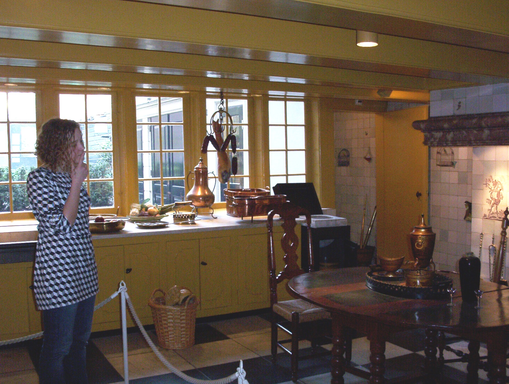 Kitchen of Willet-Holthuysen Museum, Herengracht 605, Amsterdam. Built around 1685 for Jacob Hop, mayor of Amsterdam. 18th century style Dutch kitchen with tiled walls. Date foto: February 2007